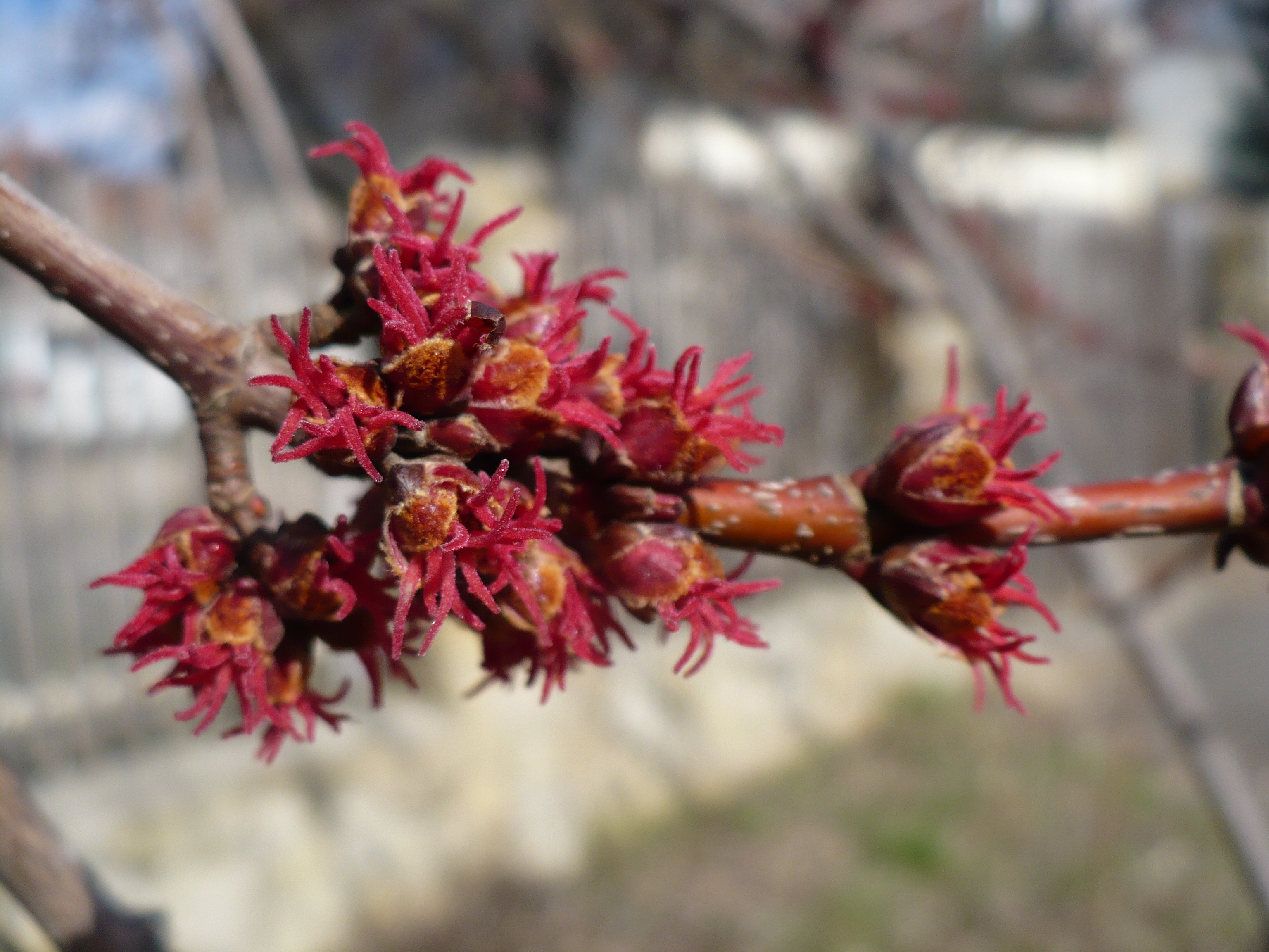 Inflorescence of Acer rubrum